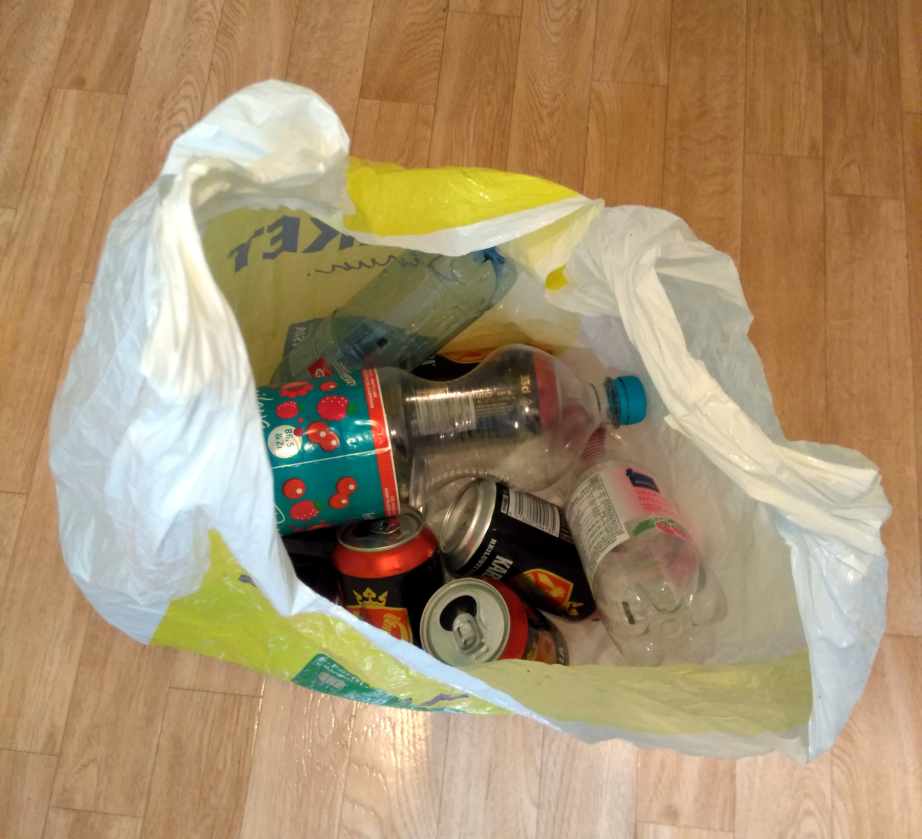 Empty finnish recyclable beverage containers in plastic bag. These are returnable to a reverse deposit machine for a return payment.